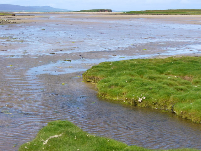 The Ouse This is a shallow tidal bay sheltered behind a storm beach. It is sandy bottomed and is a haunt of ducks and oyster catchers.